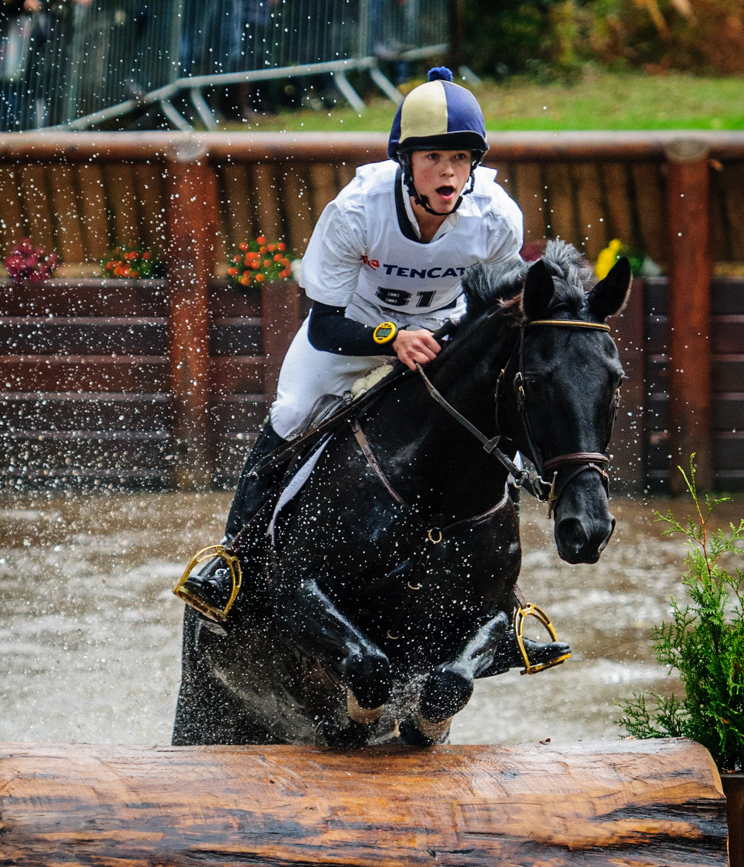 Military Boekelo 2013: Elmo Jankari & Duchess Desiree